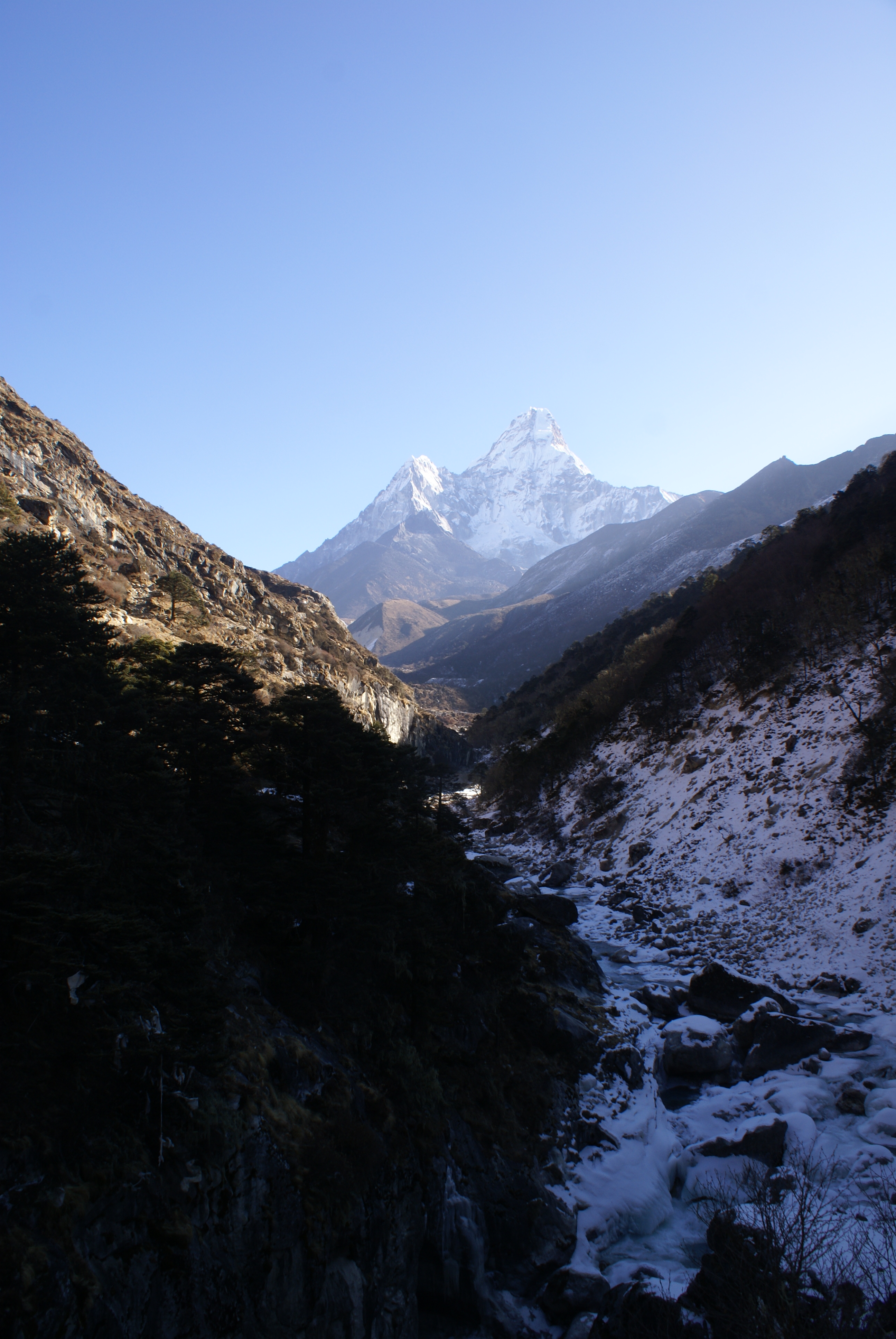 Imja Khola river with Ama Dablam in the background.